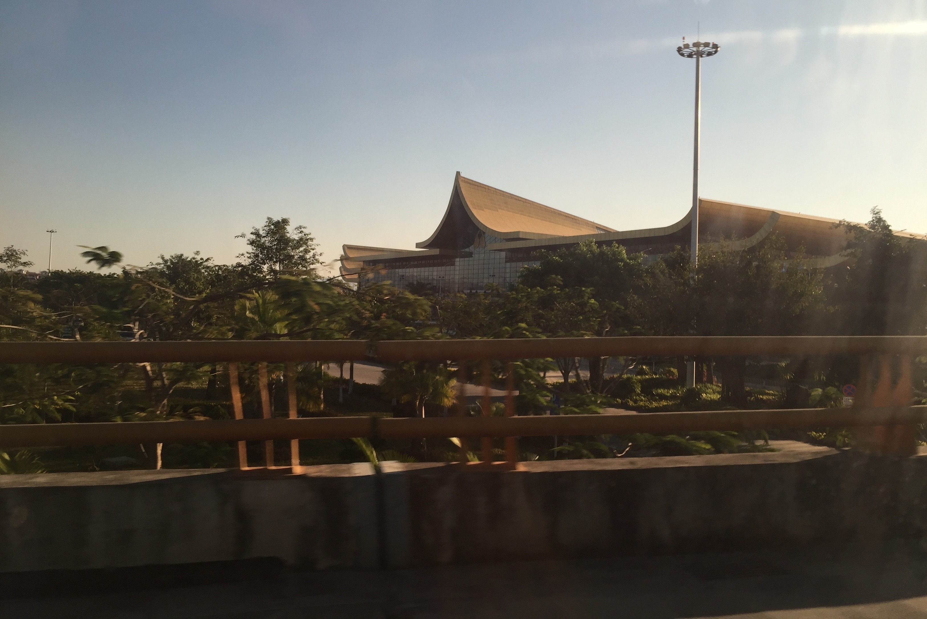 This is the Xishuangbanna Gasa Airport, viewed from a connecting expressway.